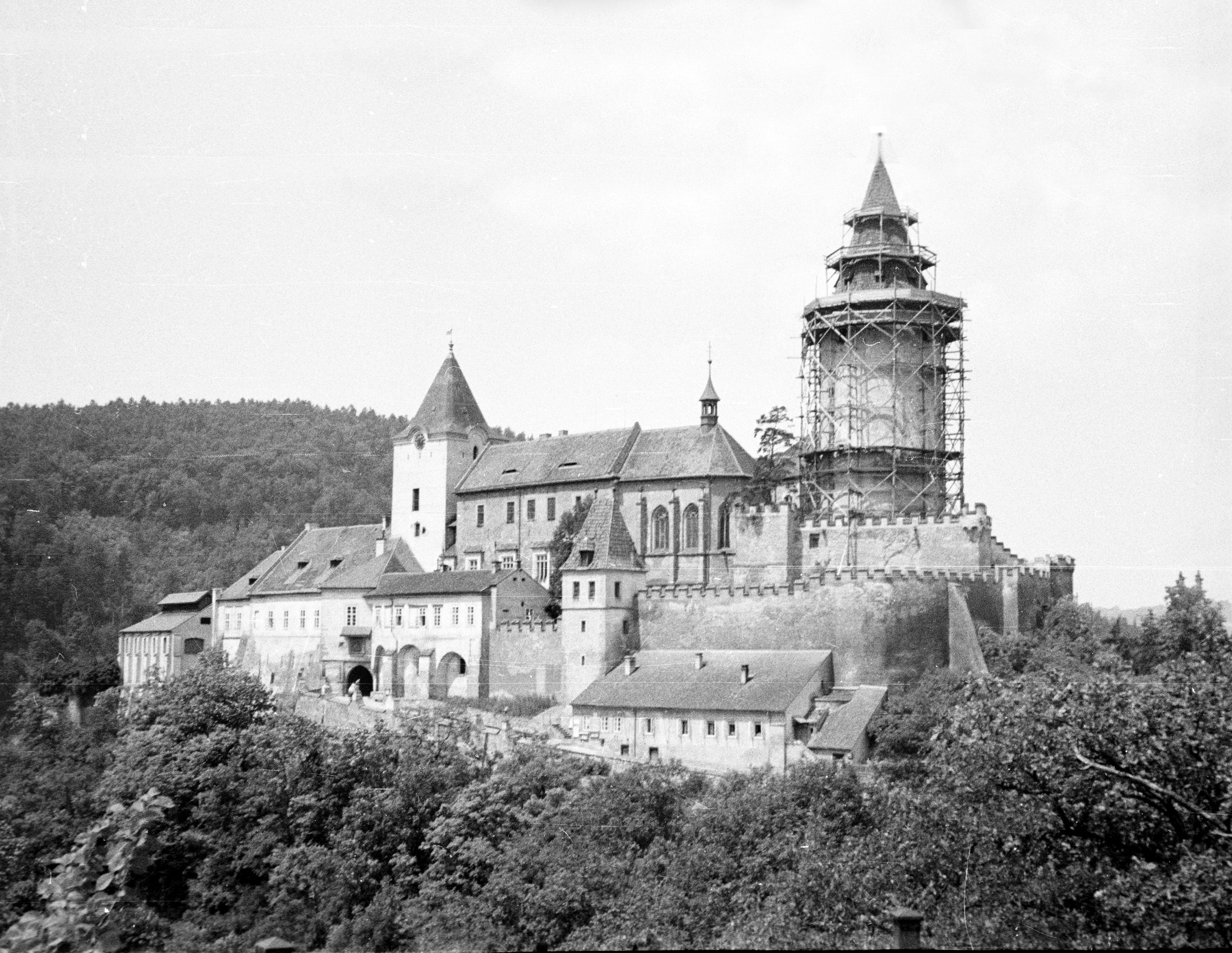 Castle Krivoklat in Czech Republic around 1958 when its main tower was reconstructed. The latest possible date of the picture is 1963.